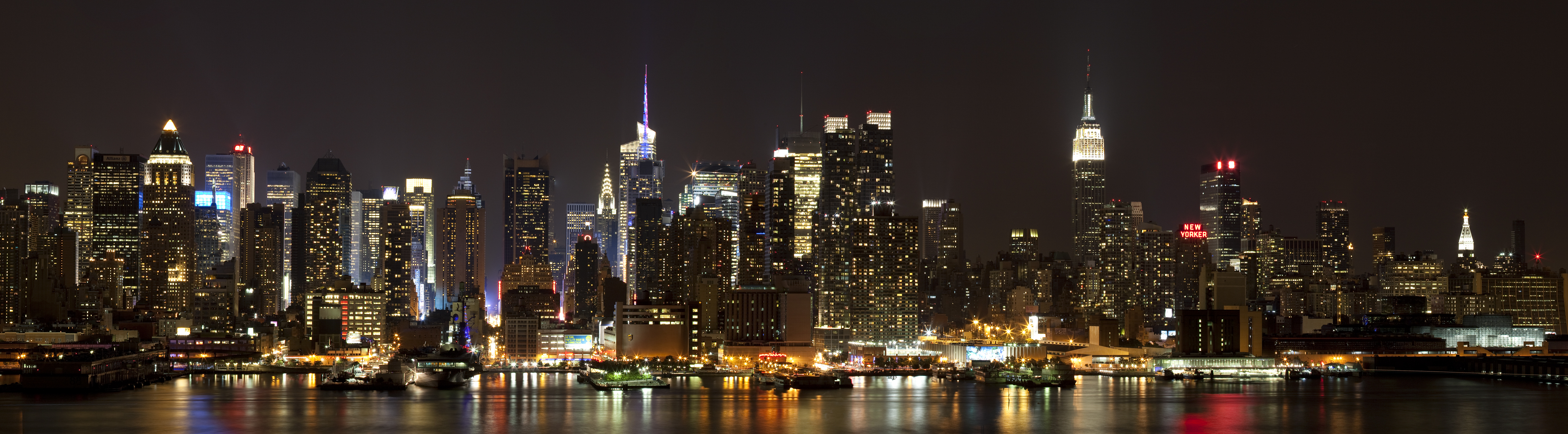 Midtown Manhattan as seen from Weehawken, NJ